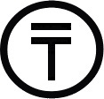 Old conformity mark for a Category B appliance. Since superseded by the PSE circle.